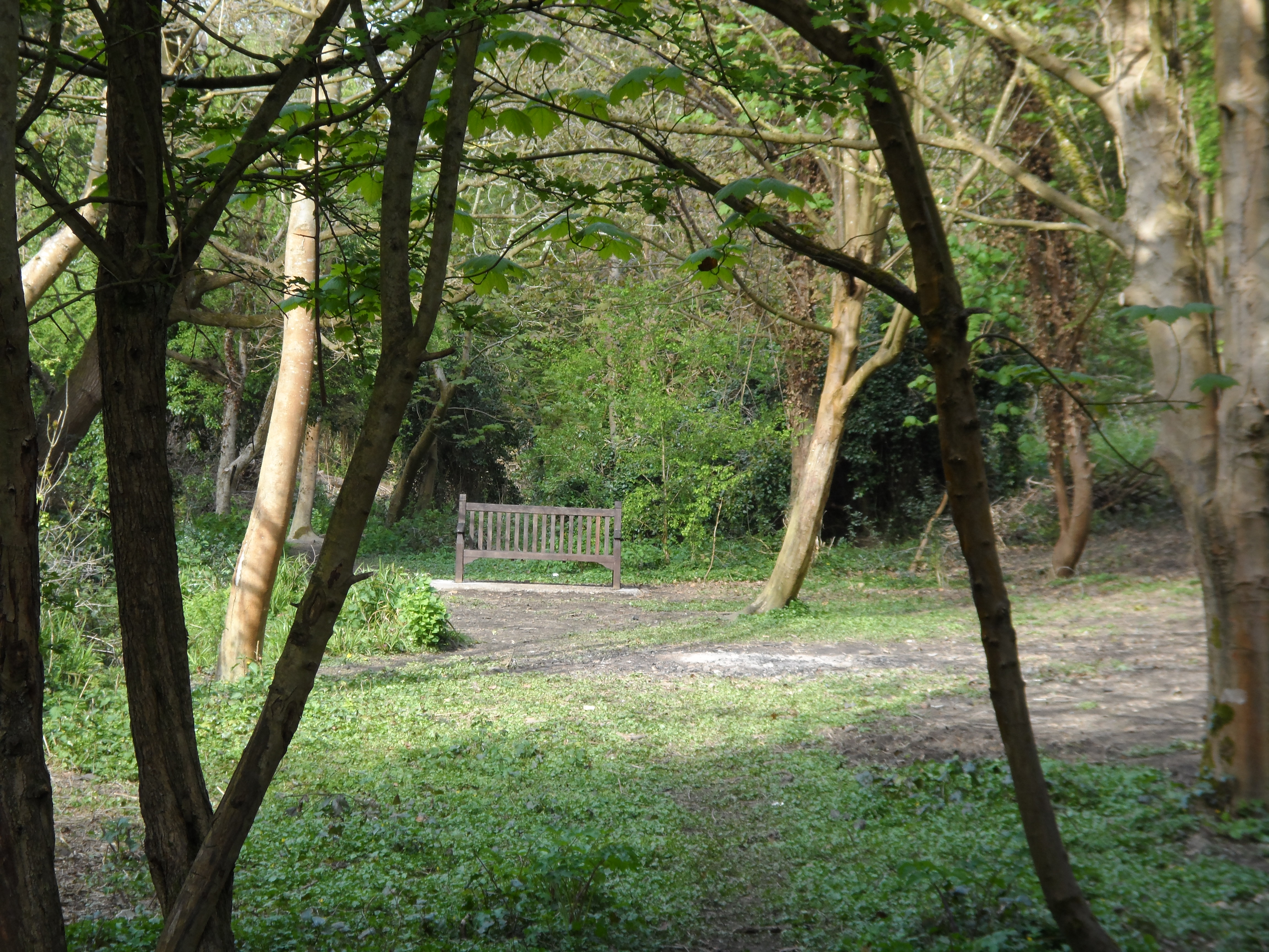 There are plenty of places to sit and ponder and think in Speckled Wood. This can be one of the most relaxing places to recharge your batteries.